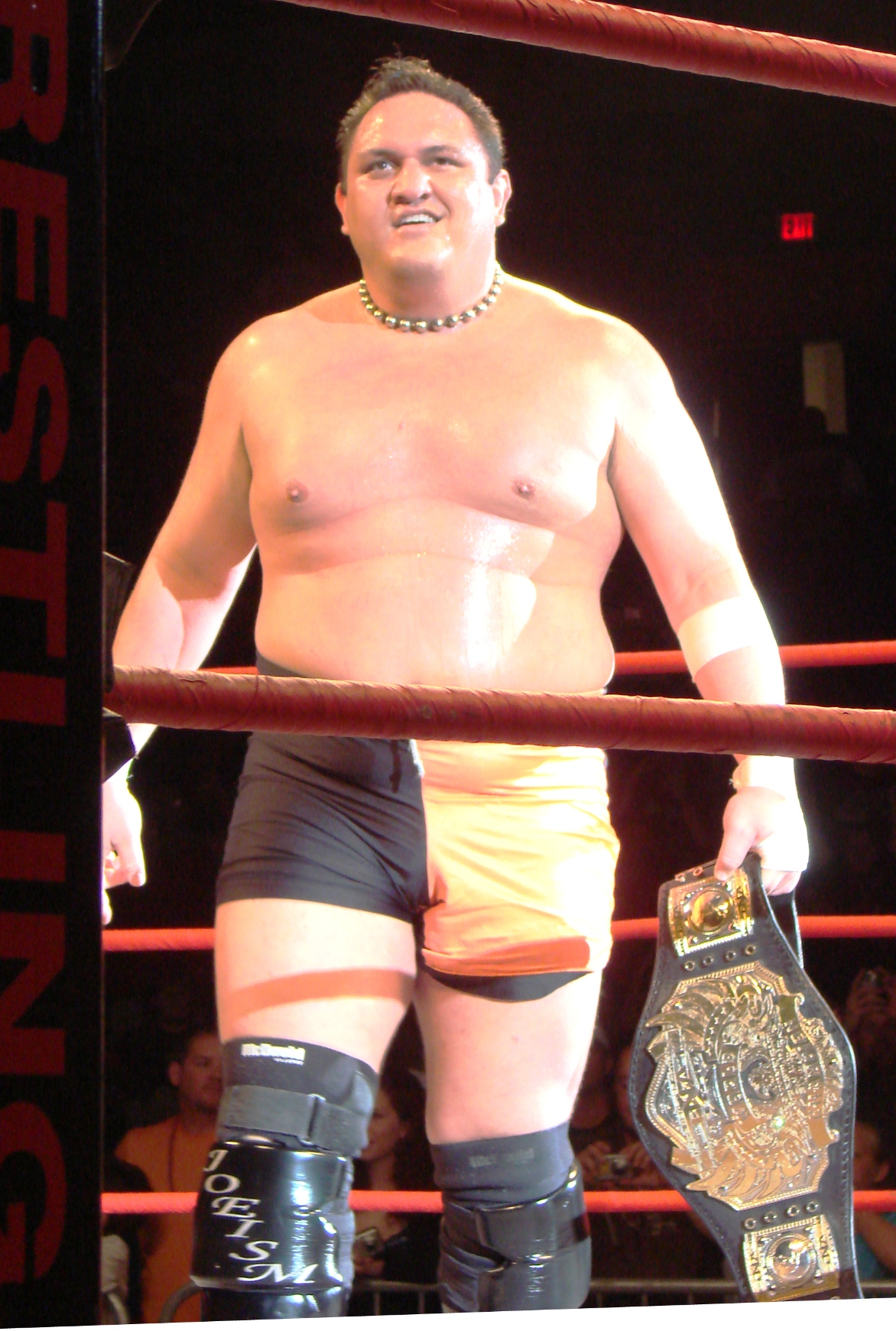 TNA World Heavyweight Champion Samoa Joe. Bloomington, Illinois. Taken by myself. Rotated, cropped, and enhanced.